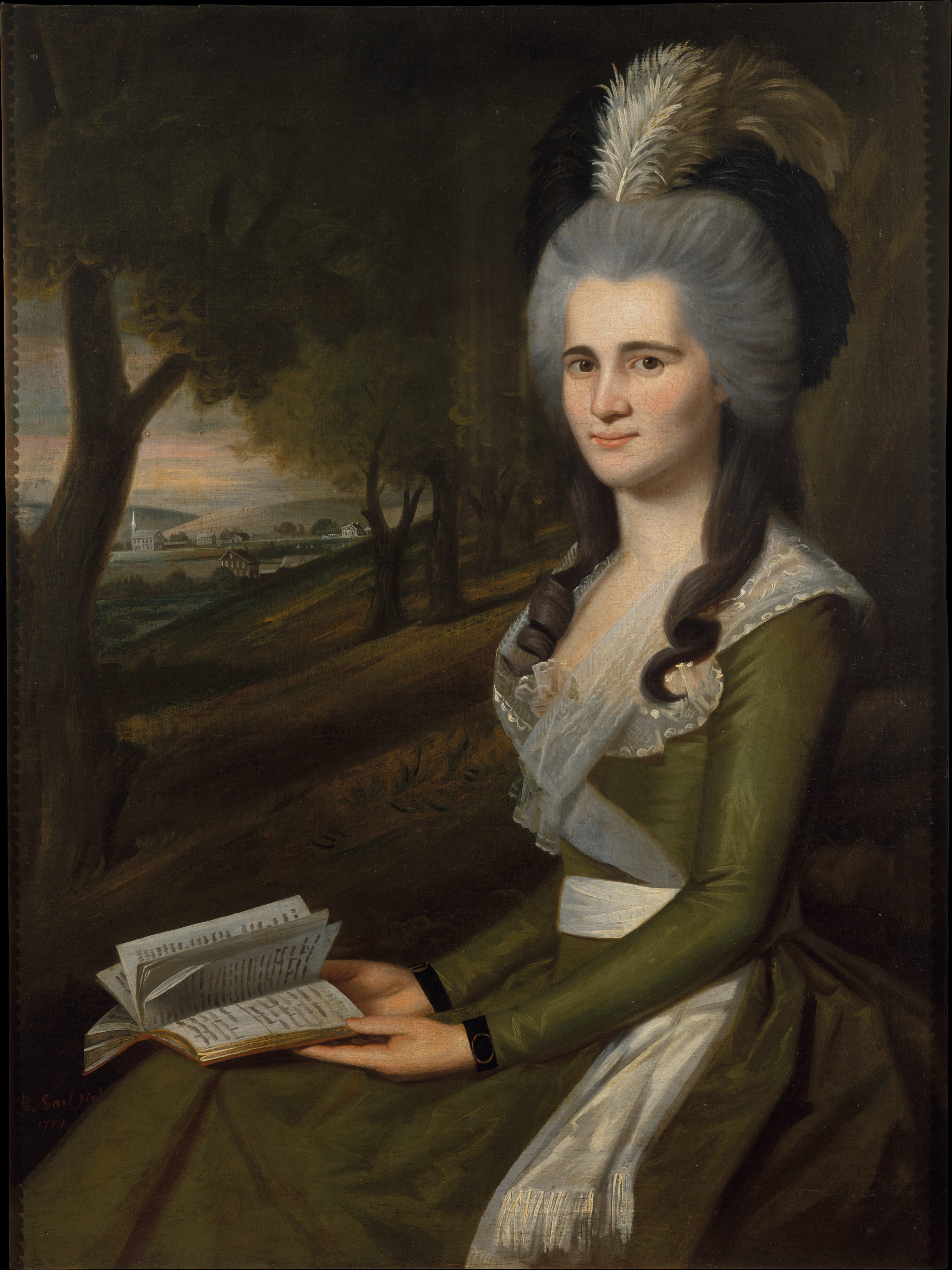 Esther Boardman Artist: Ralph Earl (American, Worcester County, Massachusetts 1751–1801 Bolton, Connecticut) Date: 1789 Medium: Oil on canvas Dimensions: 42 1/2 x 32 in. (108 x 81.3 cm) Classification: Paintings Credit Line: Gift of Edith and Henry Noss, 1991 The Connecticut portraits Earl painted after returning from a seven-year stay in England are his greatest works as they combined his natural talents with the lessons he had gleaned from English art of the period. He rendered most of this portrait of Esther Boardman (1762–1851) in deep shades of green and brown to highlight his sitter’s striking face. Her alert gaze suggests intelligence, and her coiffure and wraparound dress, or levite, reveal her to be at the height of fashion, as was her brother, Elijah (whose portrait is also in the Museum's collection; 1979.395). The background shows the town of New Milford, which the Boardman family had been instrumental in settling.